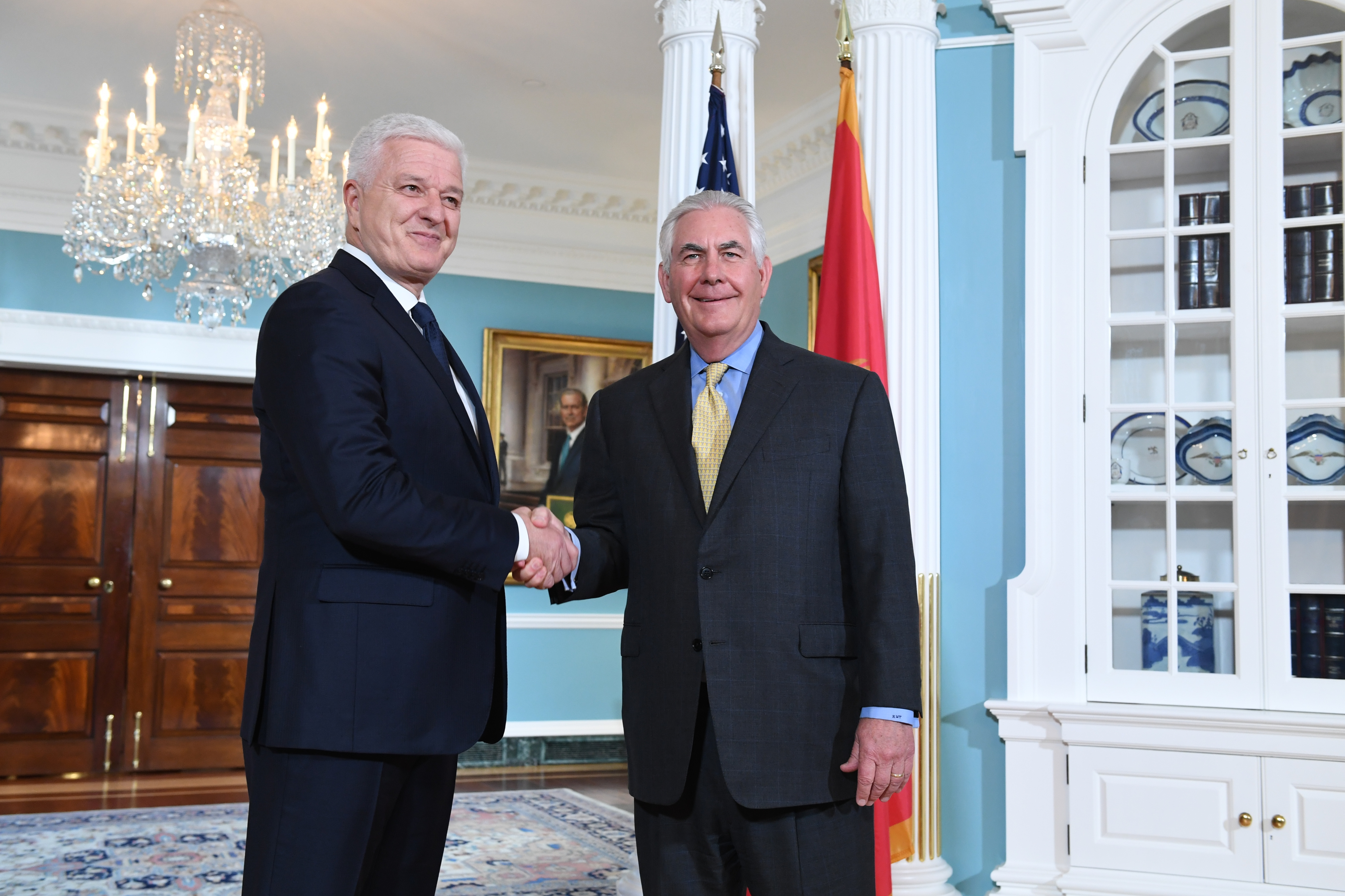 U.S. Secretary of State Rex Tillerson shakes hands with Montenegrin Prime Minister Dusko Markovic before their meeting at the U.S. Department of State in Washington, D.C., on May 8, 2017. [State Department photo/ Public Domain]